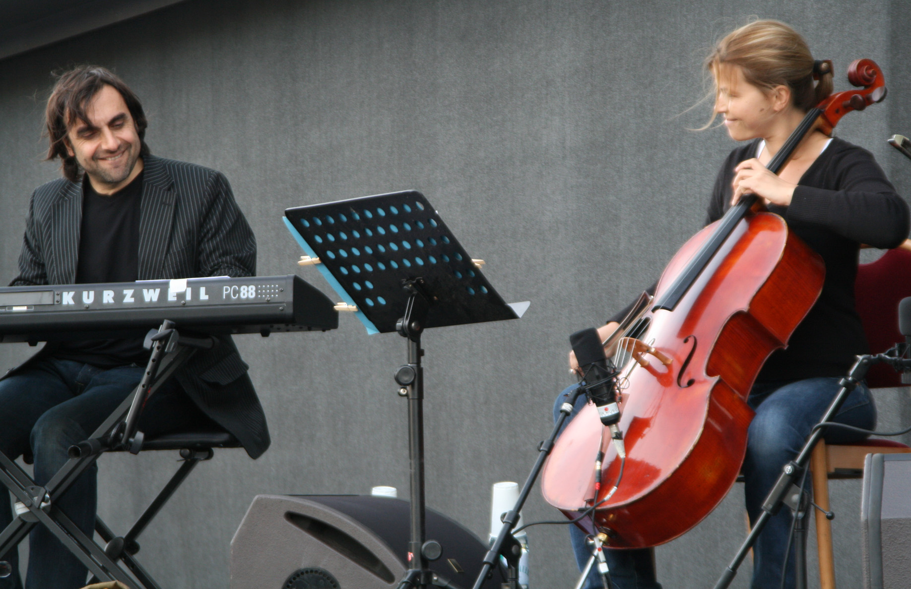 Malia-concert at the Rathausplatz in Vienna; keys: André Manoukian, cello: Mathilde Sternat (Jazz-Fest Wien)